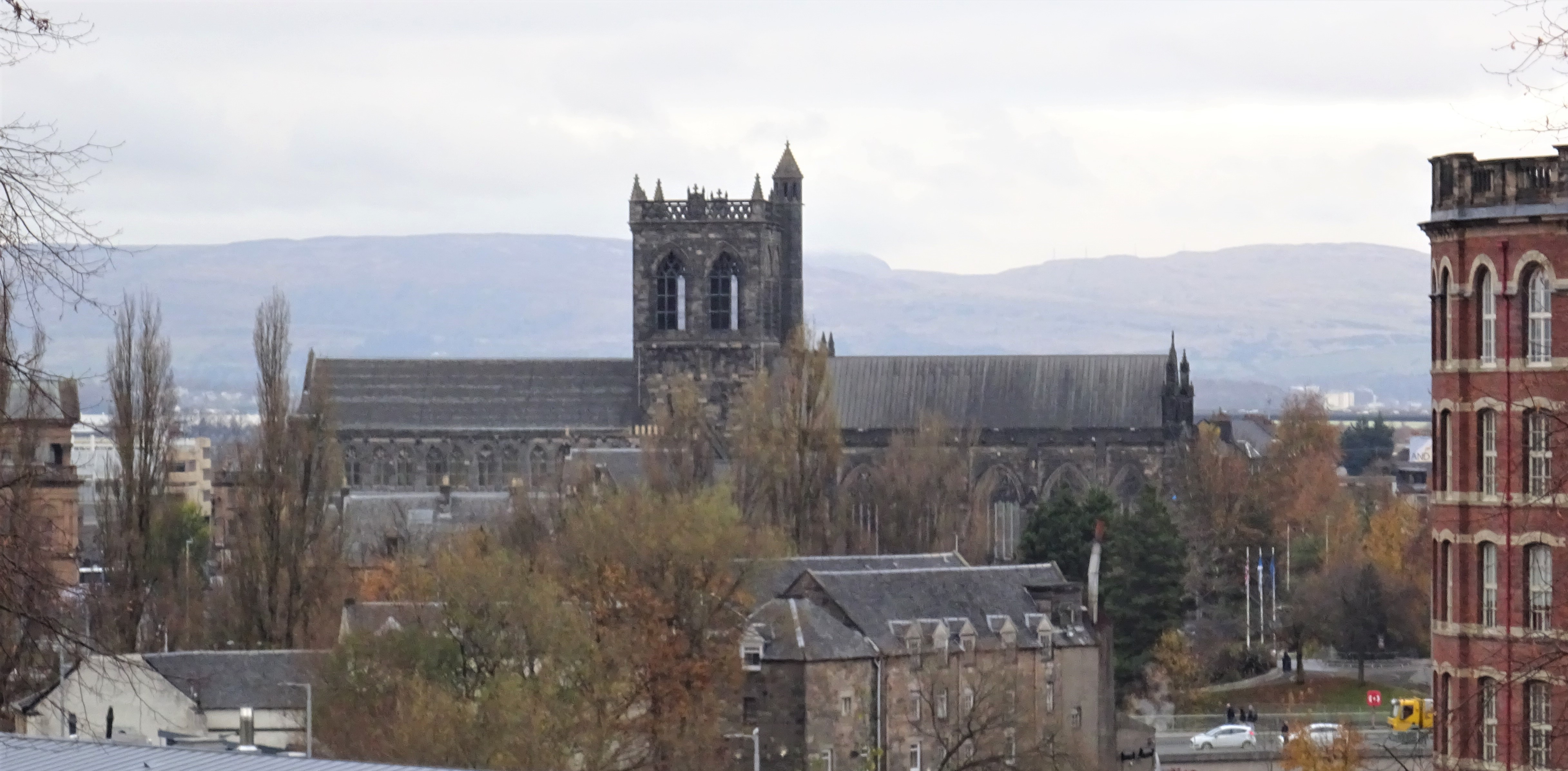 Paisley Abbey from the south at Saucelhill, Renfrewshire.